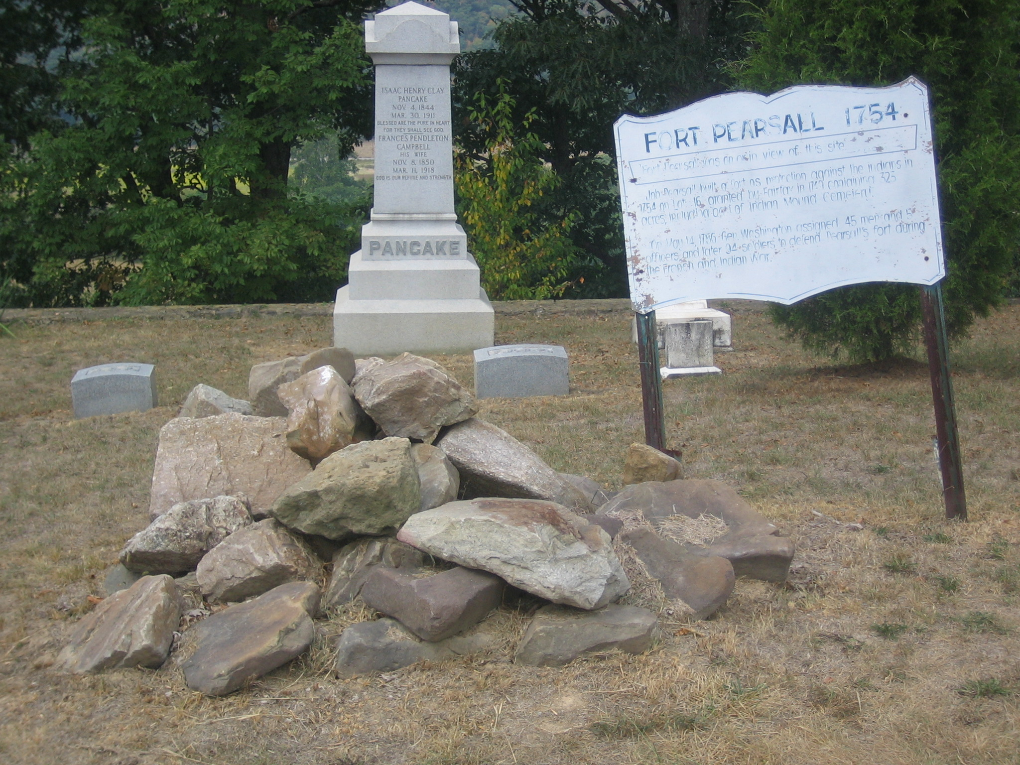 The old Fort Pearsall historical marker in Indian Mound Cemetery in Romney, West Virginia, United States.The faded marker reads: "Fort Pearsall was on or in view of this site." "Job Pearsall built a fort as protection against the [I]ndians in 1754 on Lot 16 granted by Lord Fairfax in 1749 containing 325 acres including part of Indian Mound Cemetery." "On May 14, 1756 Gen. Washington assigned 45 men and 5 officers and later 94 soldiers to defend Pearsall's fort during the French and Indian War."